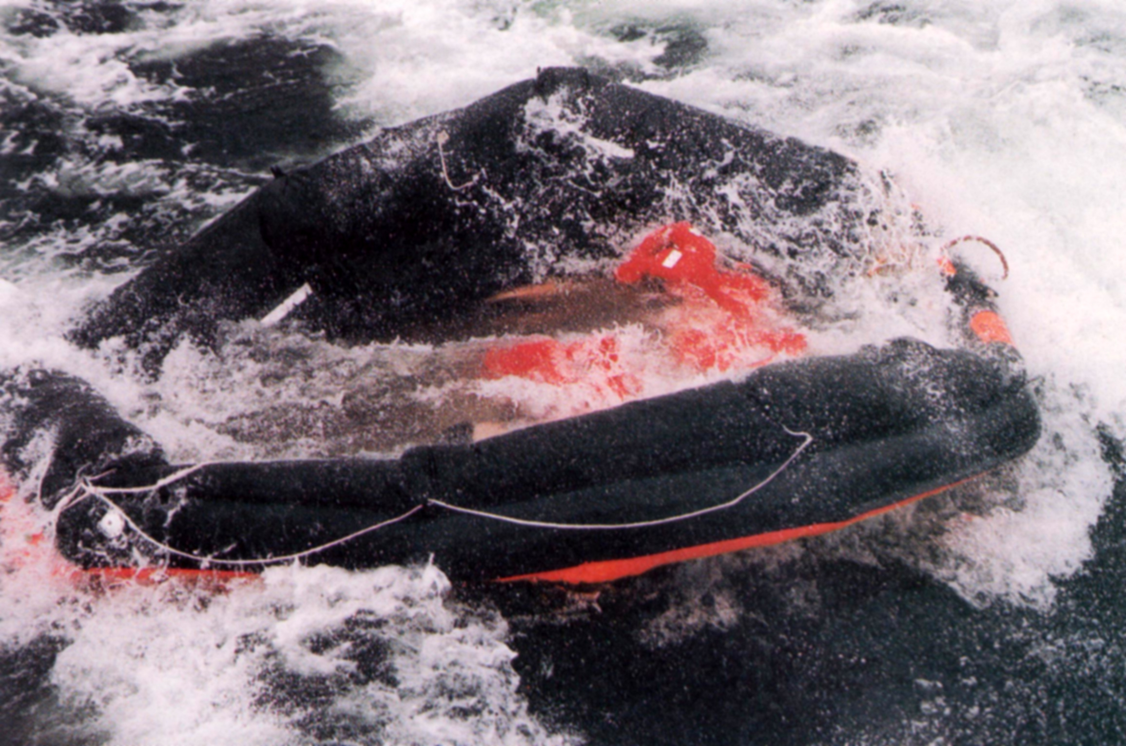 Liferaft from MS Estonia.